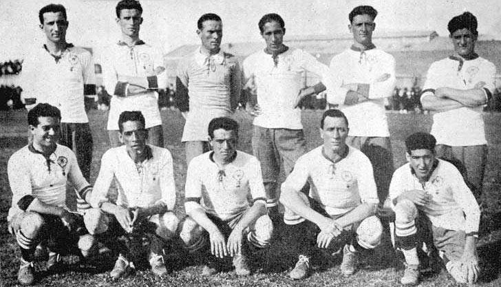 The Huracán football team that won the first Primera División title in club's history. (Up): J. B. Rodríguez, Ramón Vázquez, Ernesto Kiessel, Juan Pratto, Agustín Alberti, Luis Monti. (down): Miguel Ginevra, José Laguna, Angel Chiesa, Guillermo Dannaher, Cesáreo Onzari.